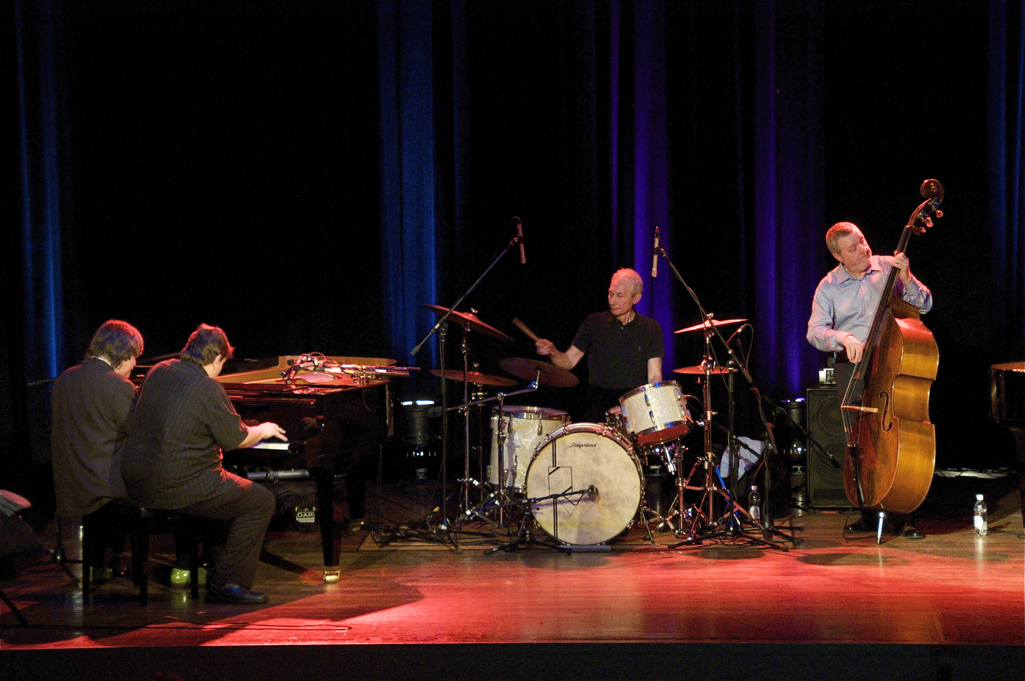 From left to right: pianists Axel Zwingenberger and Ben Waters, drummer Charlie Watts and bassist Dave Green of the band The ABC&D of Boogie Woogie, Casino Herisau, Switzerland on January 13th, 2010.